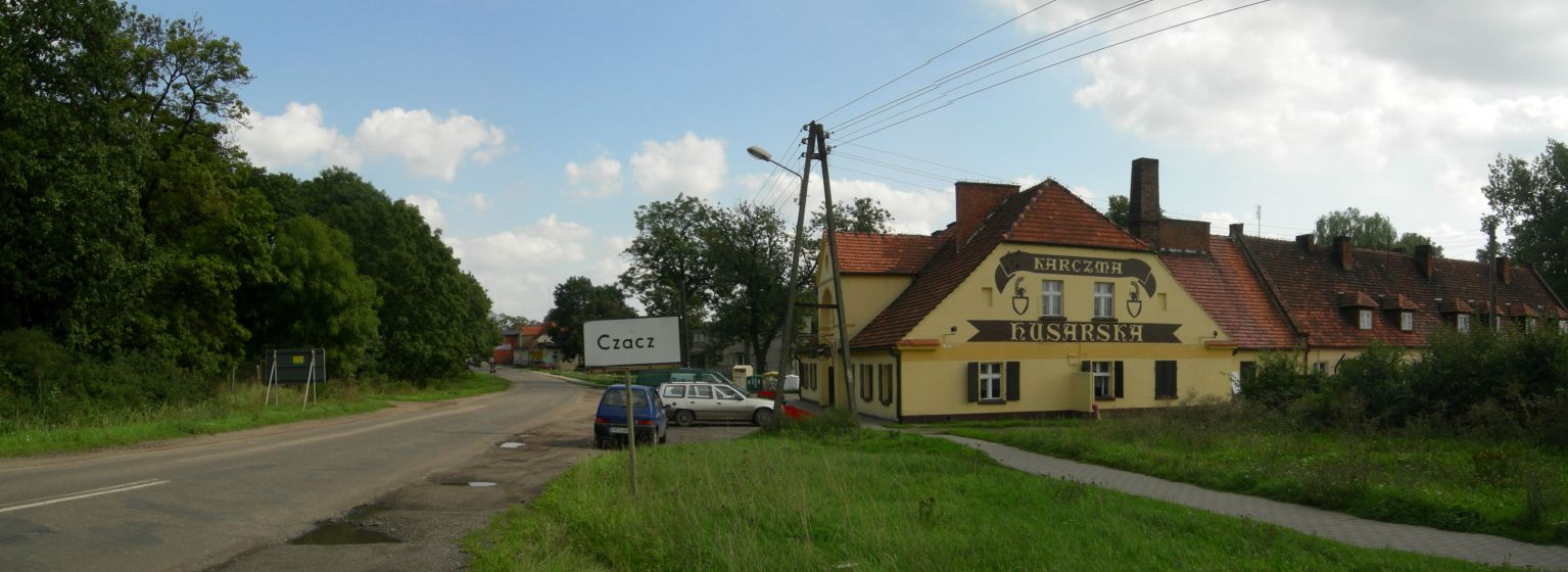 Village Czacz, Greater Poland Voivodeship, Poland